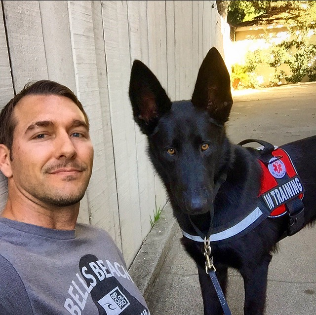 Lucky Dog host and animal trainer, Brandon McMillan, with service dog, Atlas.